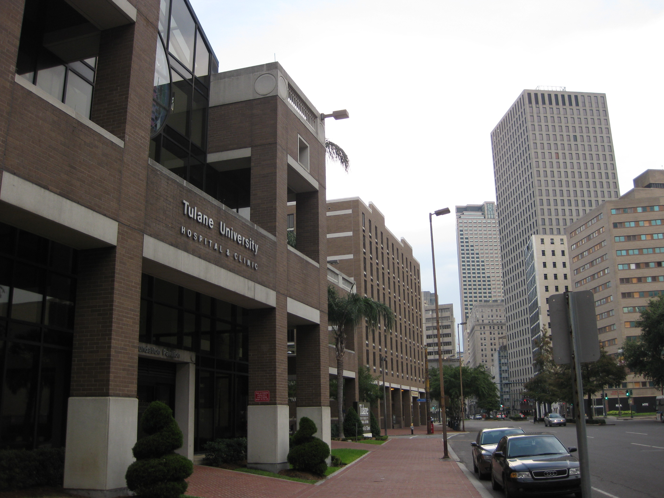 The Tulane University Hospital and Clinic, located in the Medical District of downtown New Orleans.